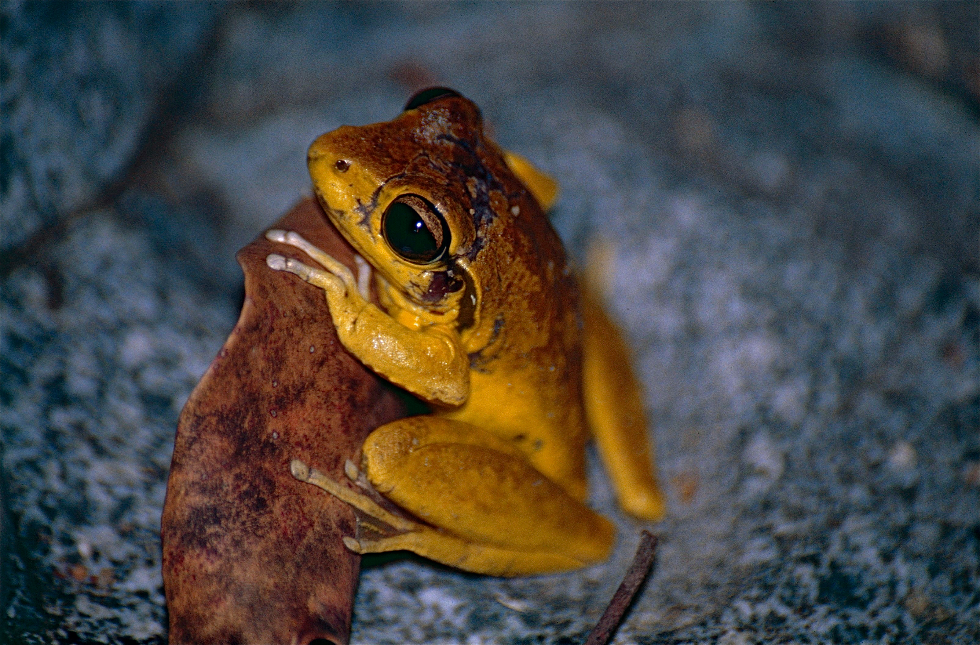 Eungella NP, Broken River, Central Queensland, AUSTRALIA Scanned Slide from Dec 2000